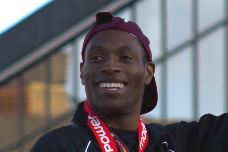 Footballer Kyel Reid. Image cropped from original at flickr.